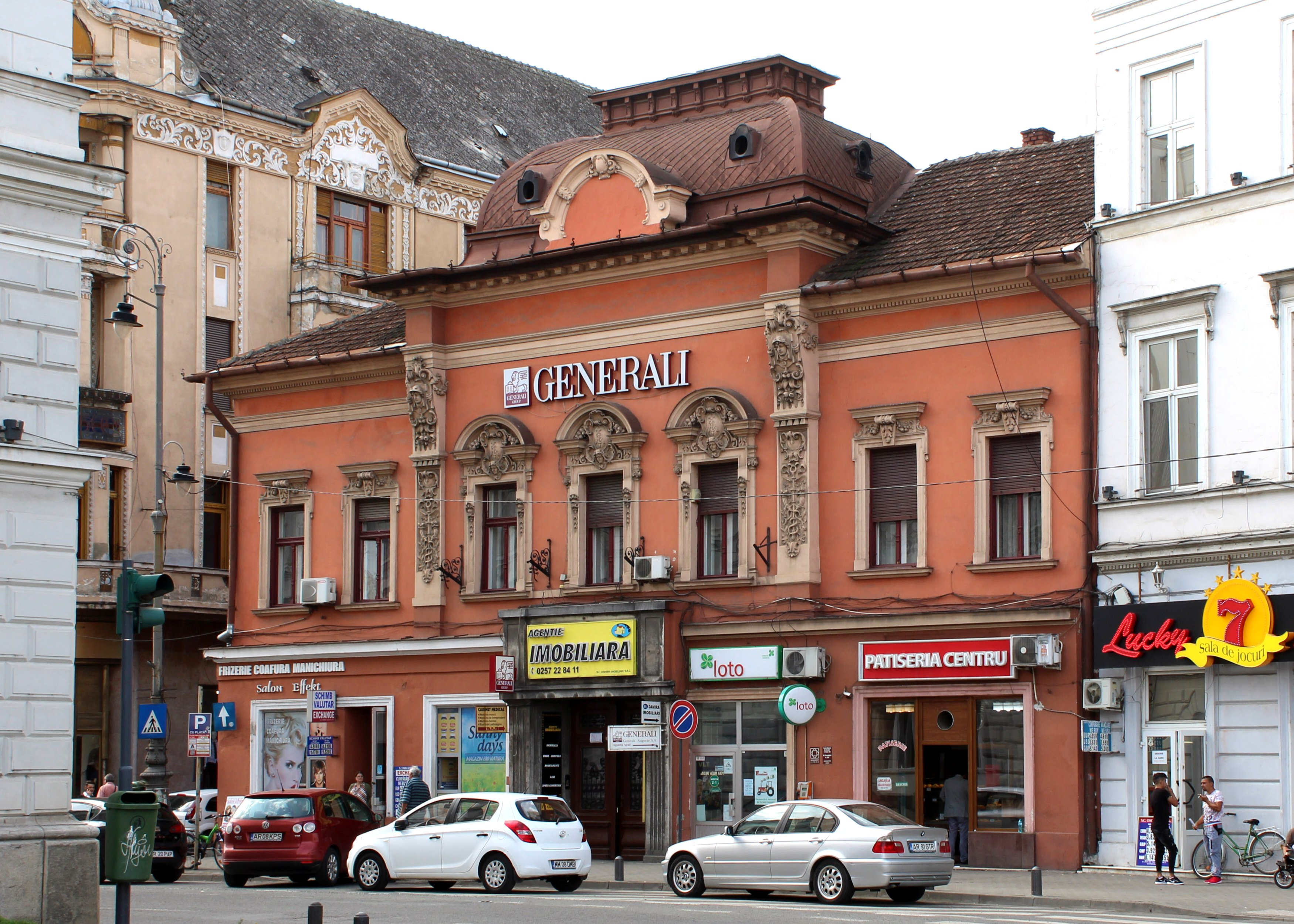 Former Credit Bank, Arad, Romania, built 1840.